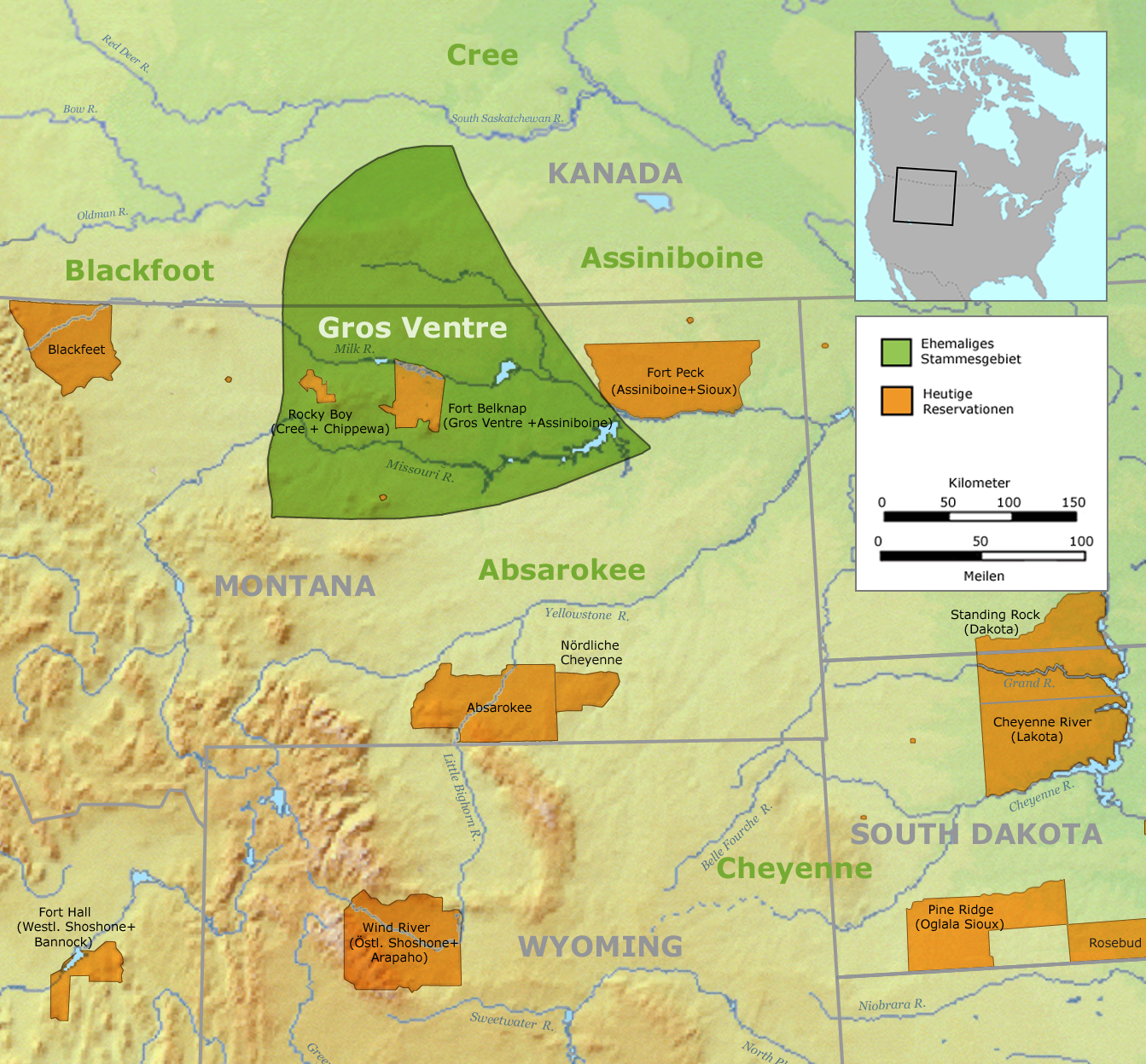 Tribal territory of Gros Ventre